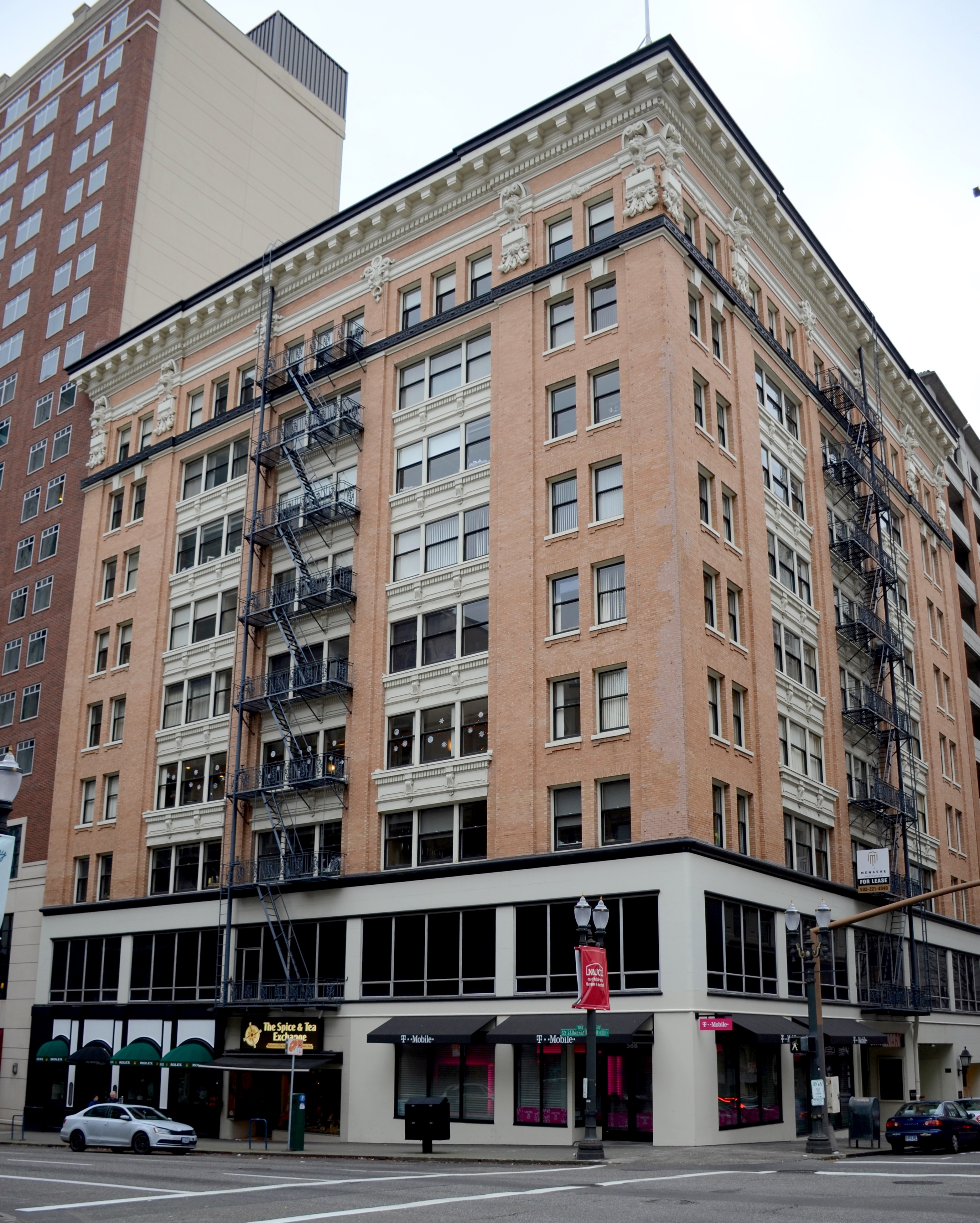 The Electric Building, at Broadway & Alder in downtown Portland, Oregon, viewed from the west, across that intersection.